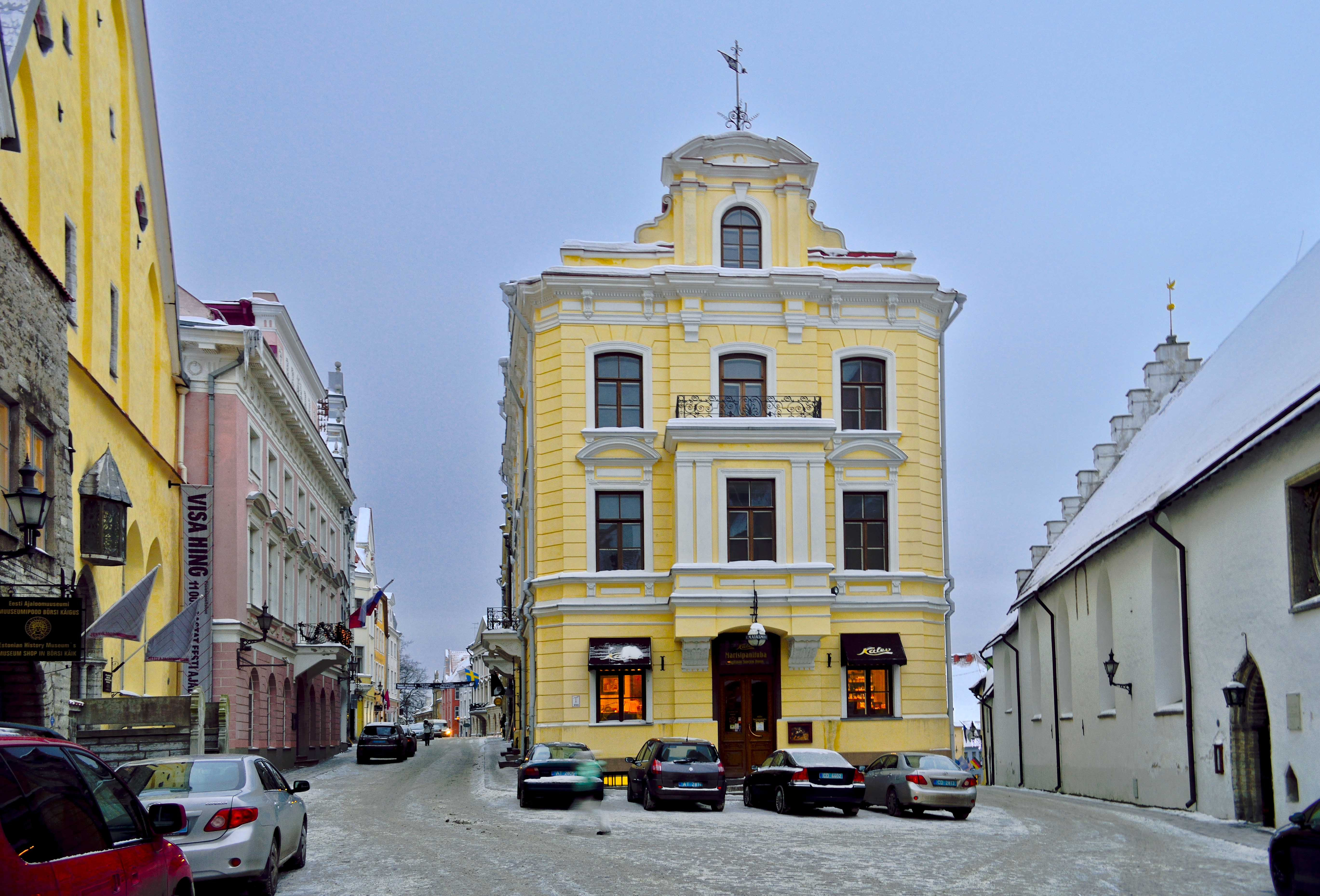 Elamu aadressil Pikk 16 / Pühavaimu 1